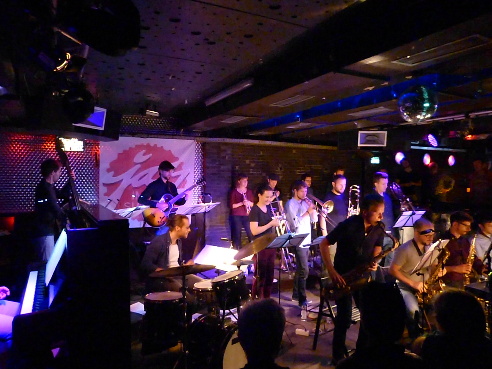 Subway Jazz Orchestra feat. Florian Ross (arr,comp) in the concert "Big Company", September 12th, 2018 at Subway (Cologne), Germany, with Shannon Barnett and others